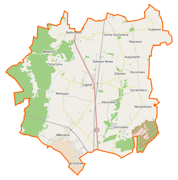 Map of Gmina Lipno, Poland This map of Lipno (gmina w województwie wielkopolskim) was created from OpenStreetMap project data, collected by the community. This map may be incomplete, and may contain errors. Don't rely solely on it for navigation. Border coordinates51.976616.4610←↕→16.660851.8522